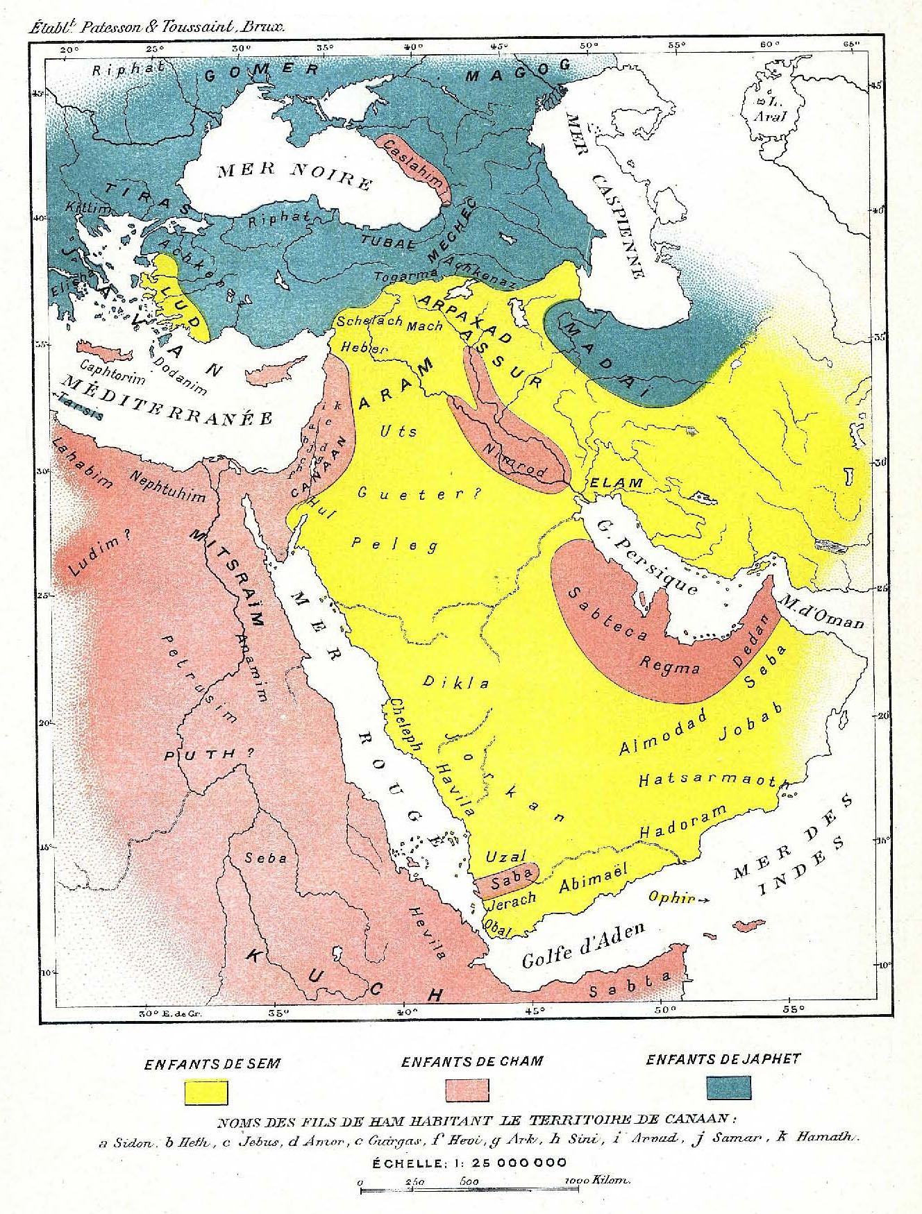 The Table of Nations. Genealogy of the sons of Noah and their dispersion into many lands after the Flood